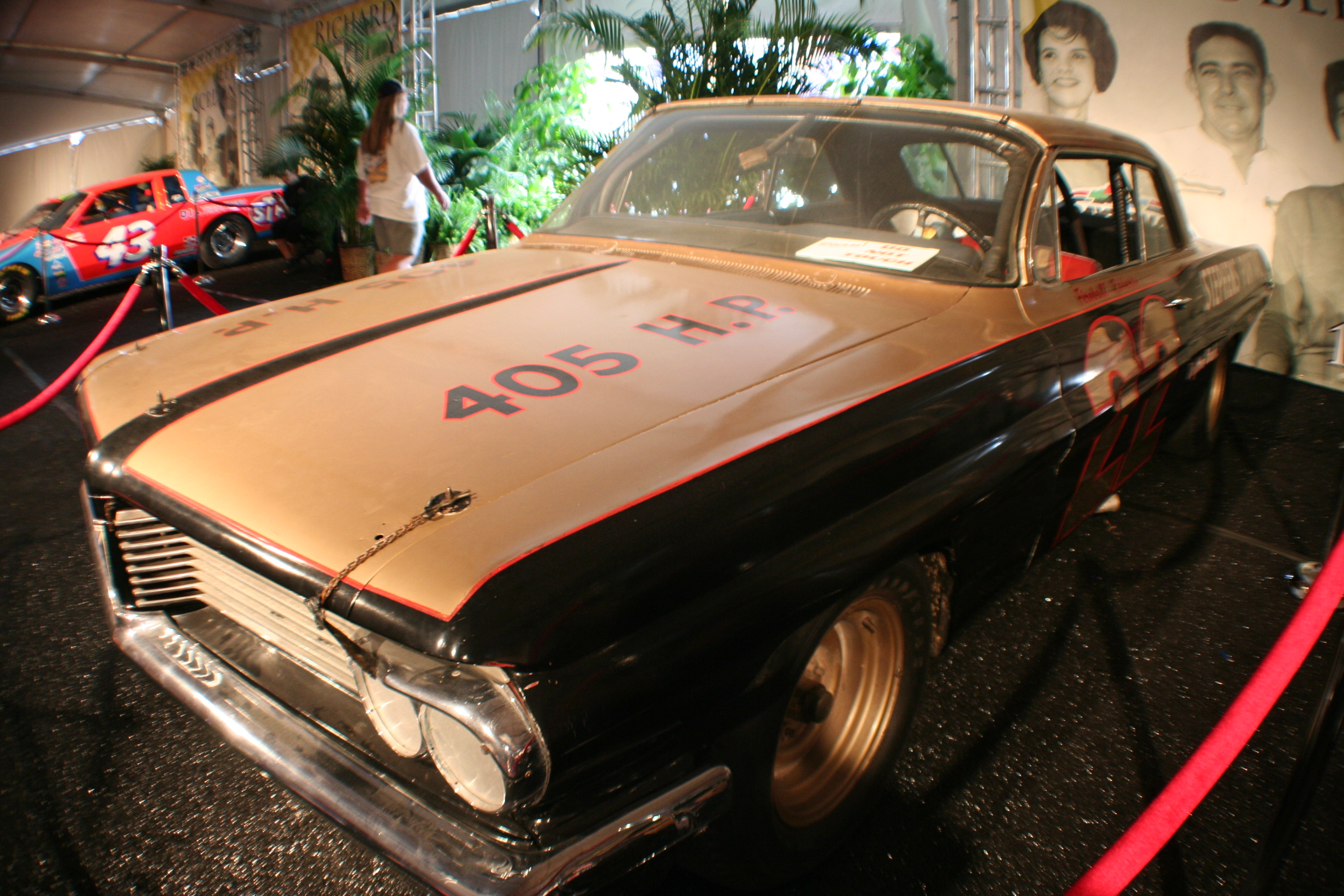 Fireball Roberts' NASCAR car that won the 1962 Daytona 500. Shot by The Daredevil at Daytona during Speedweeks 20081962 Fireball Roberts Pontiac Daytona 500 winner